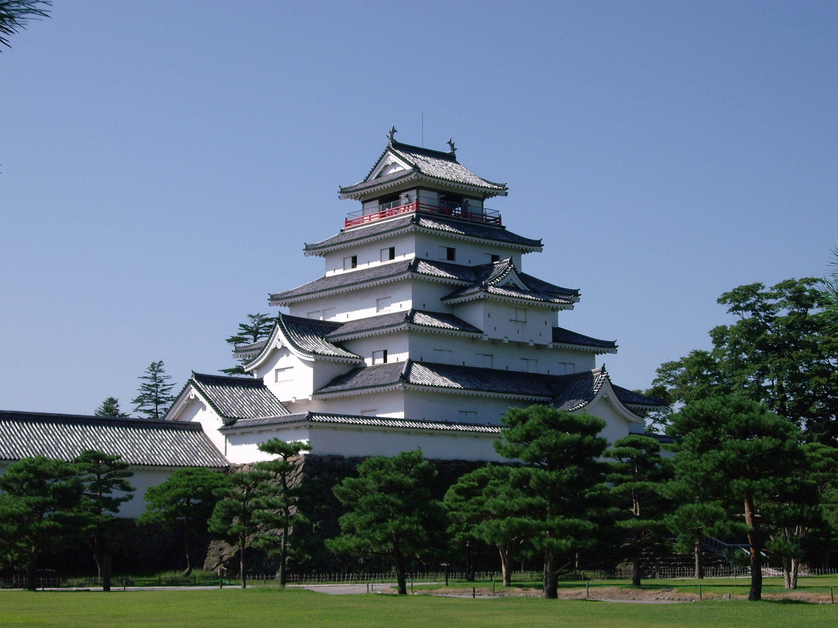 Tenshukaku of Aizuwakamatsu castle